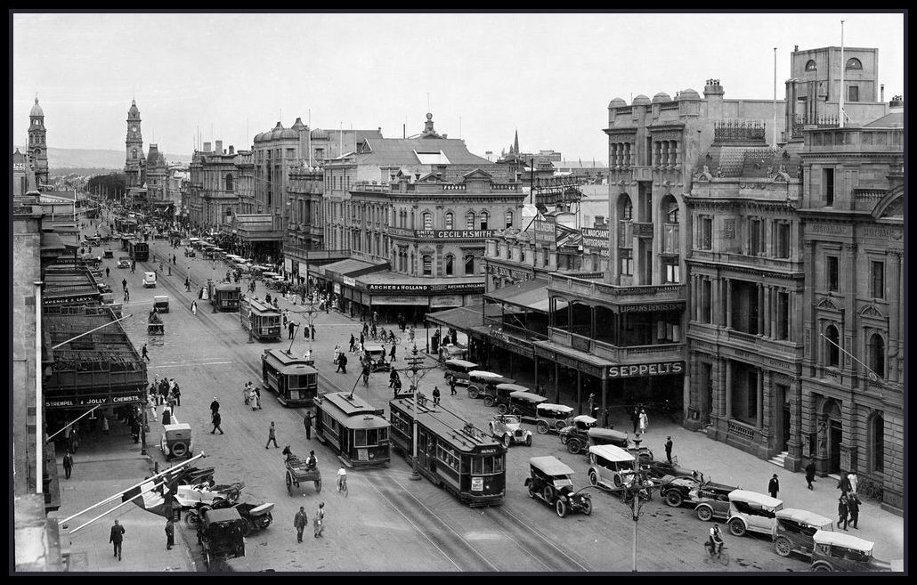 King William Street, Adelaide, South Australia. Looking south toward the Town Hall (left) and Post Office (right) clock towers. The intersection with Rundle and Hindley Streets is in the centre foreground.